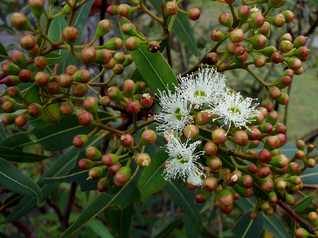 Eucalyptus curtisii. General Information: Small tree (to 8 m high) often with more than one stem. Bark smooth, greyish, shedding in short, curly flakes.Flowers in Spring. Adult leaves alternate, lanceolate, apex pointed, discolourous, dense reticulation, oil glands obscure or absent. Inflorescences: Terminal panicle, 7 per umbel, buds pyriform, obovoid or ovoid, 4 small sepals on the buds. Flowering time Spring, Summer. Fruit: Cupular to truncate-globose, longitudinally wrinkled, valves below rim level. Distribution: SE QLD Australia Location: Brisbane suburban. Read the note on the photo.